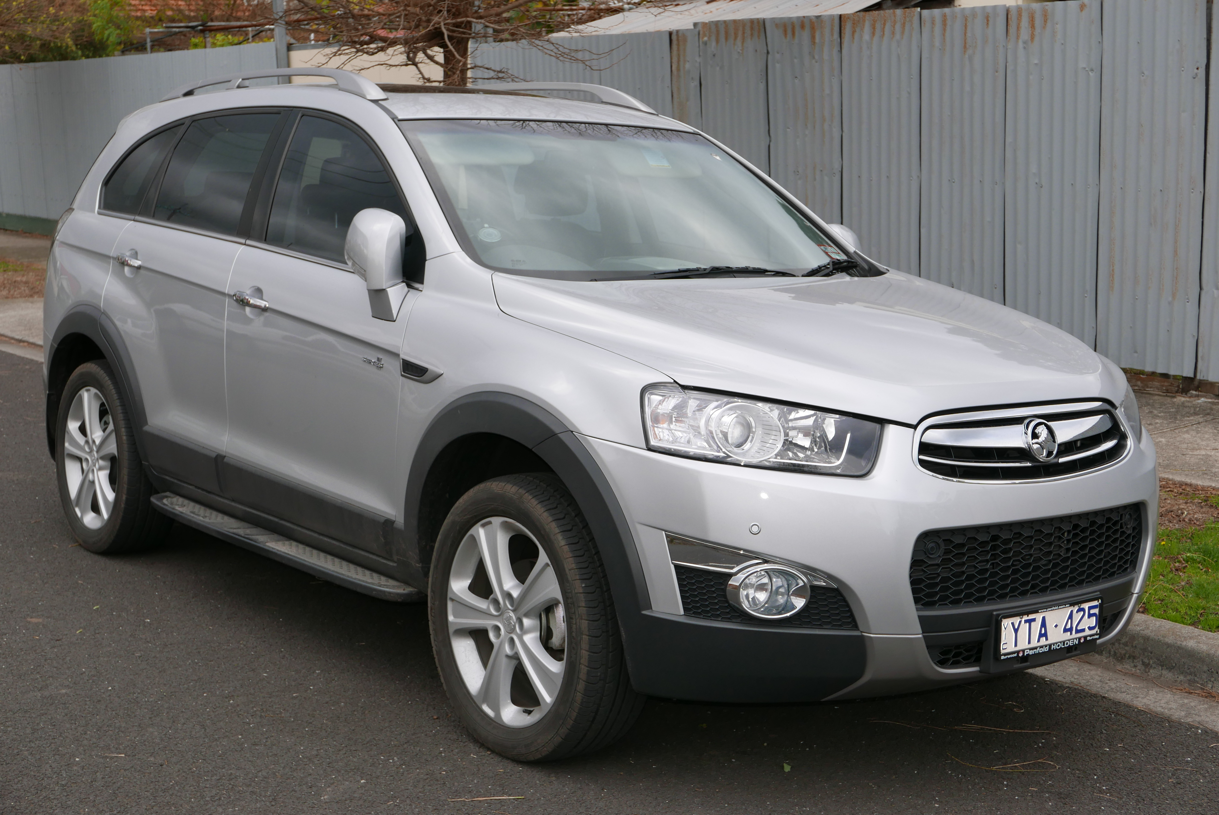 2012 Holden Captiva 7 (CG II MY12) LX AWD wagon. Photographed in Northcote, Victoria, Australia. Vehicle registration enquiry results Jurisdiction Victoria Registration YTA425 Chassis code KL3CD265JCB037959 Engine code LFW120370074 Compliance date 2012-06 Year of manufacture 2012